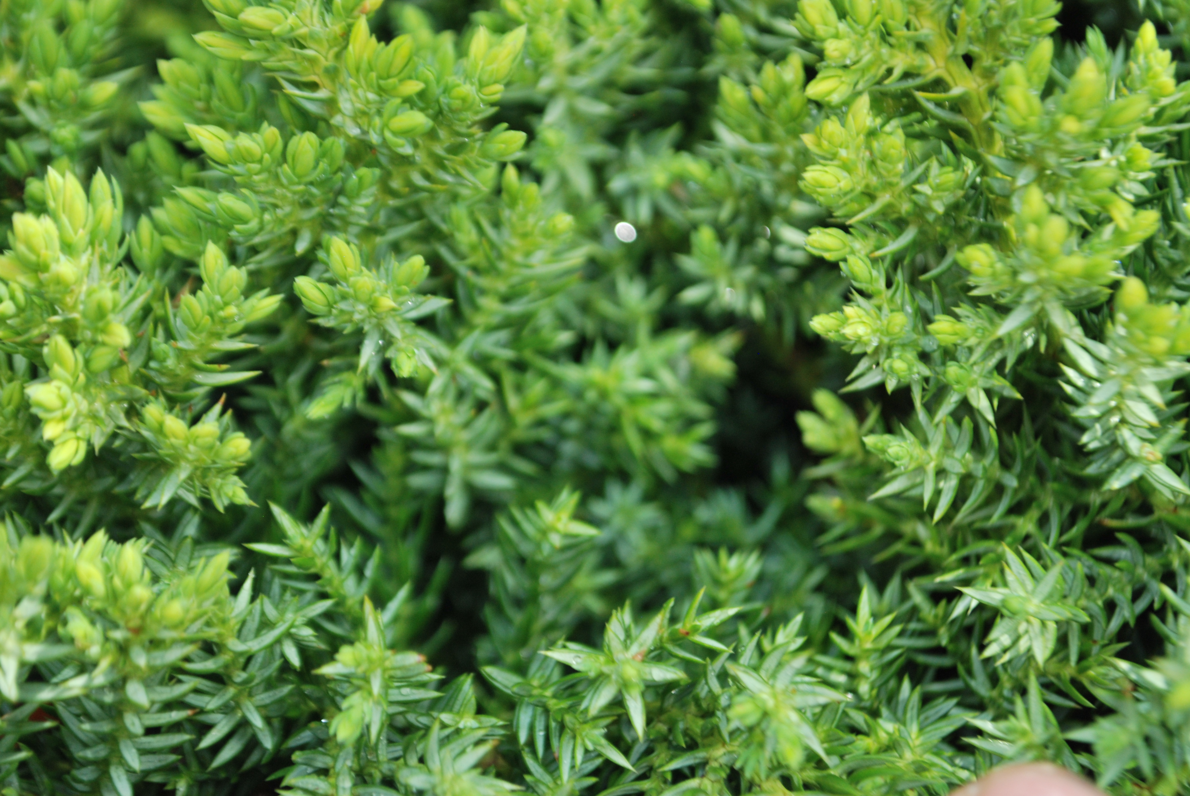 Plants in Rogačevo, Macedonia